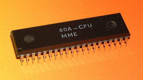 Robotron 80A CPU MME